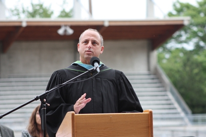 Richard Zimmerman, principal of Auburn (Senior) High School, Auburn, Washington.